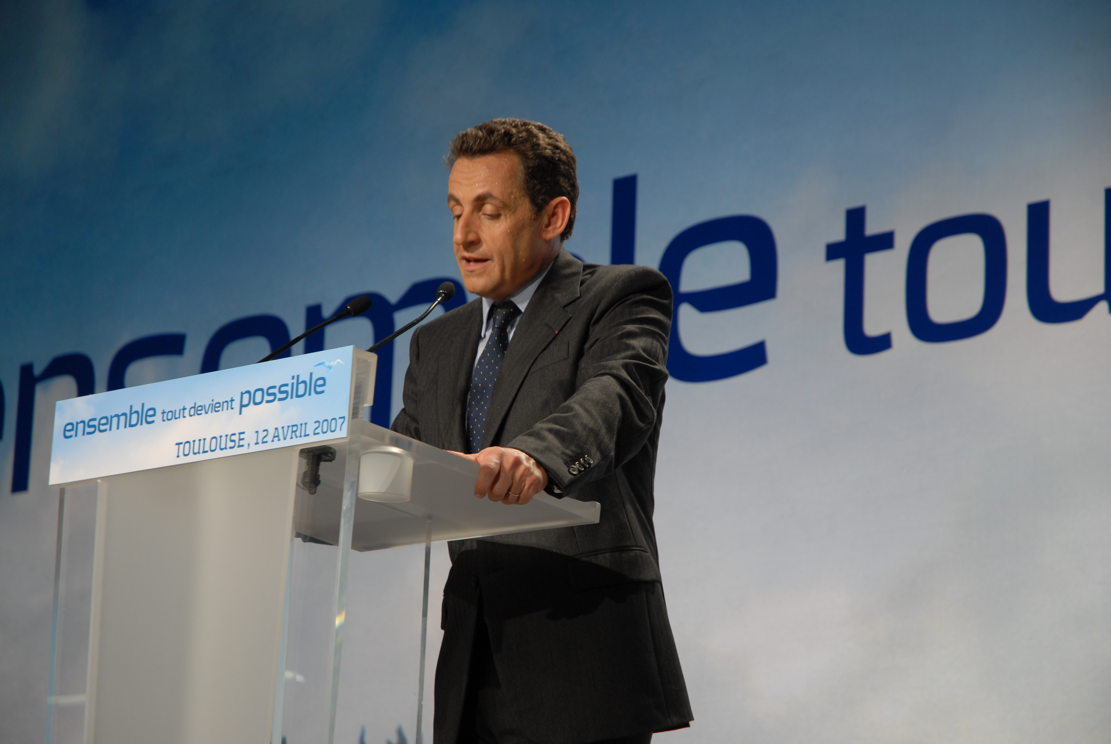 Nicolas Sarkozy during his meeting in Toulouse on April, 12th 2007 for the 2007 presidential election.